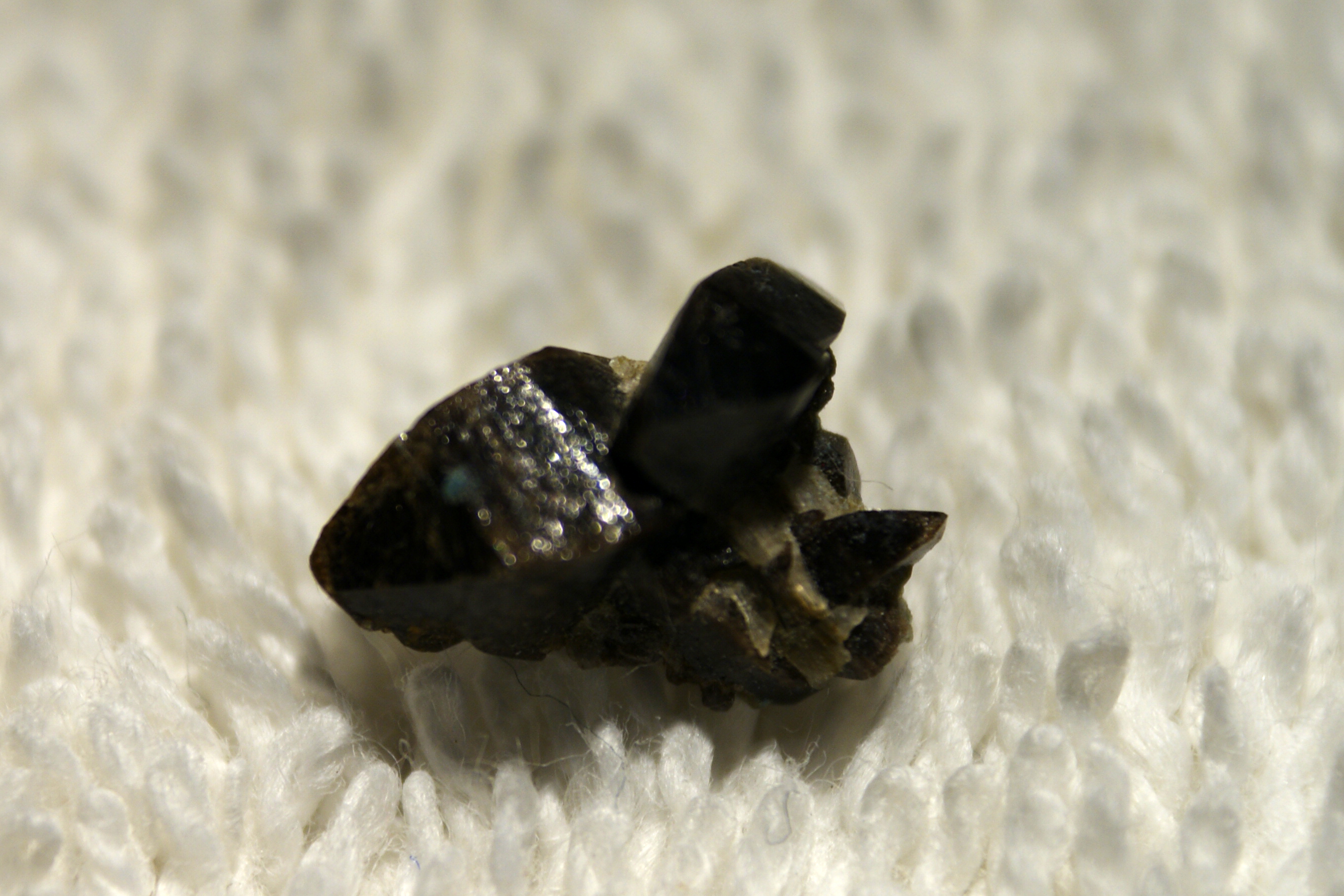 Zircon